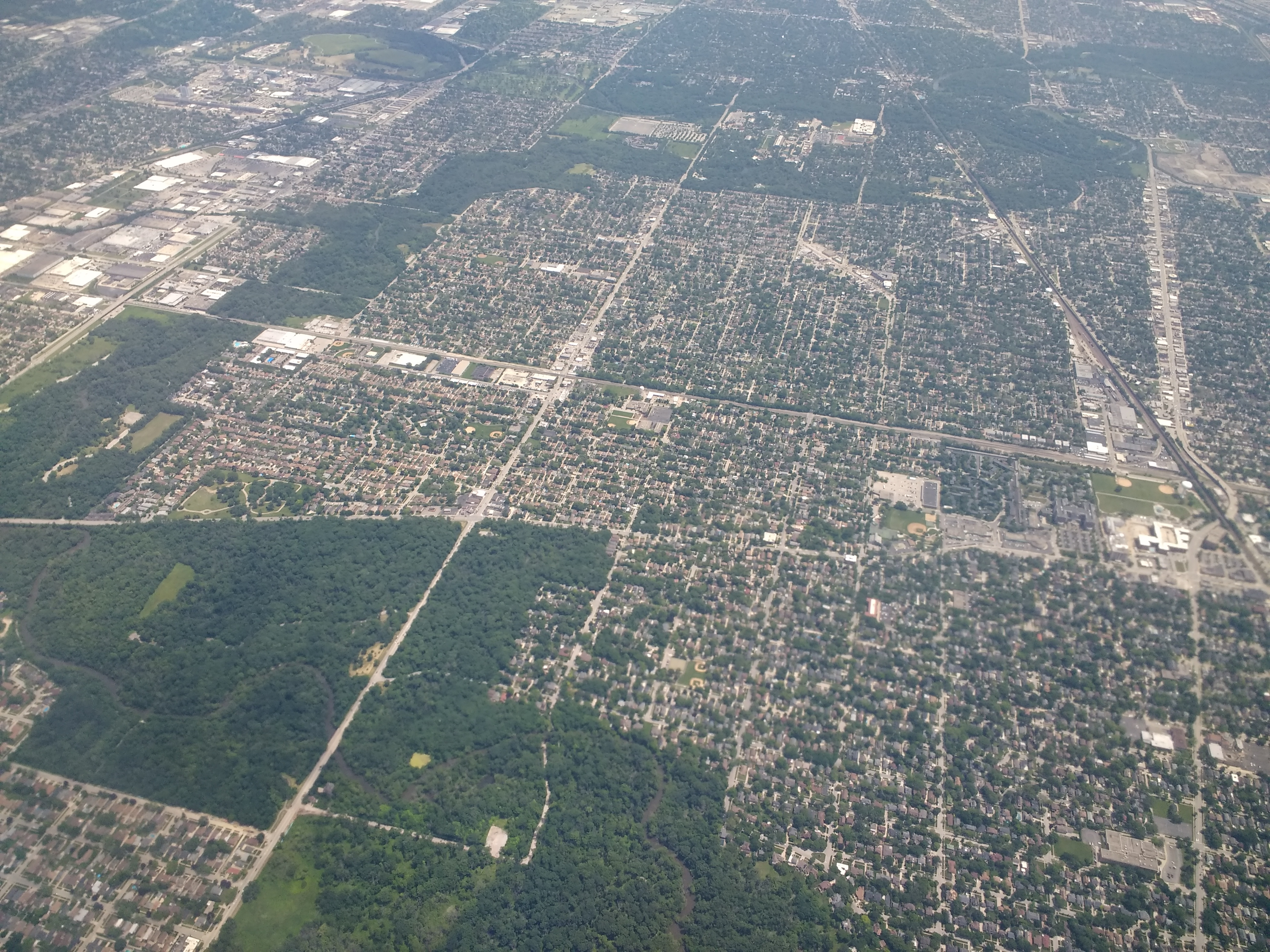 An aerial view of La Grange Park and neighboring Brookfield, Illinois.